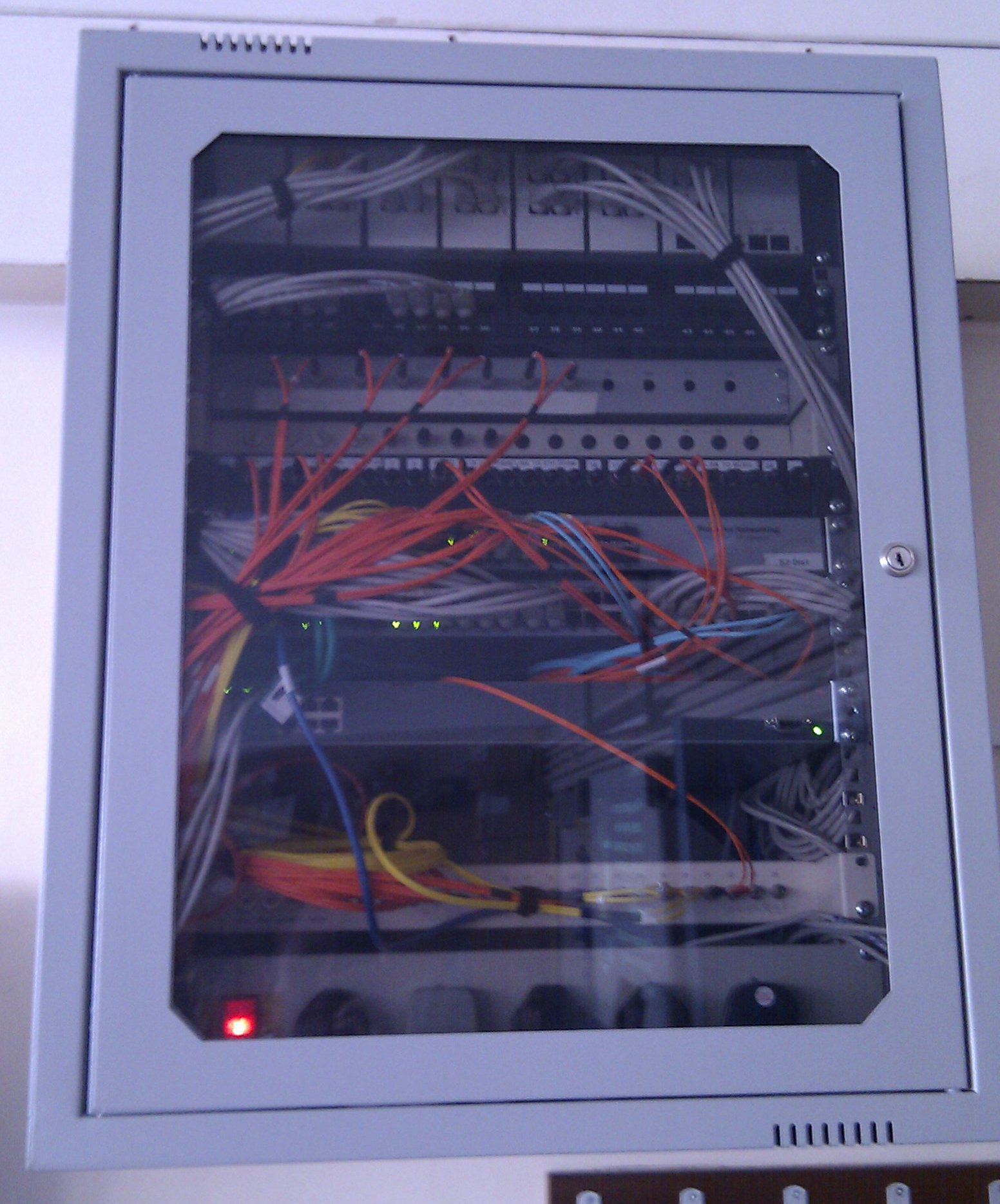 An optical fibre junction box